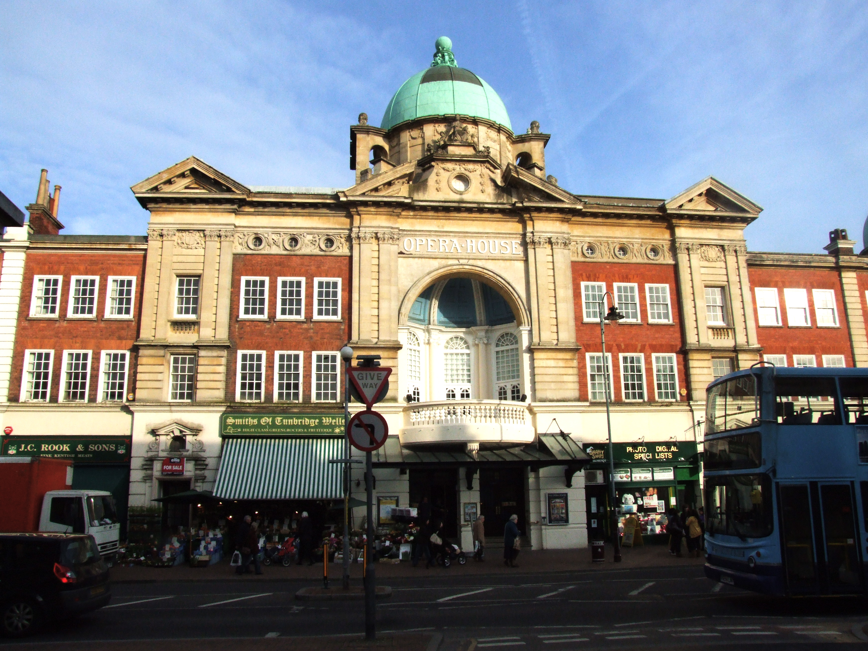 The Opera House, Tunbridge Wells This grand building is now a Wetherspoon's pub.